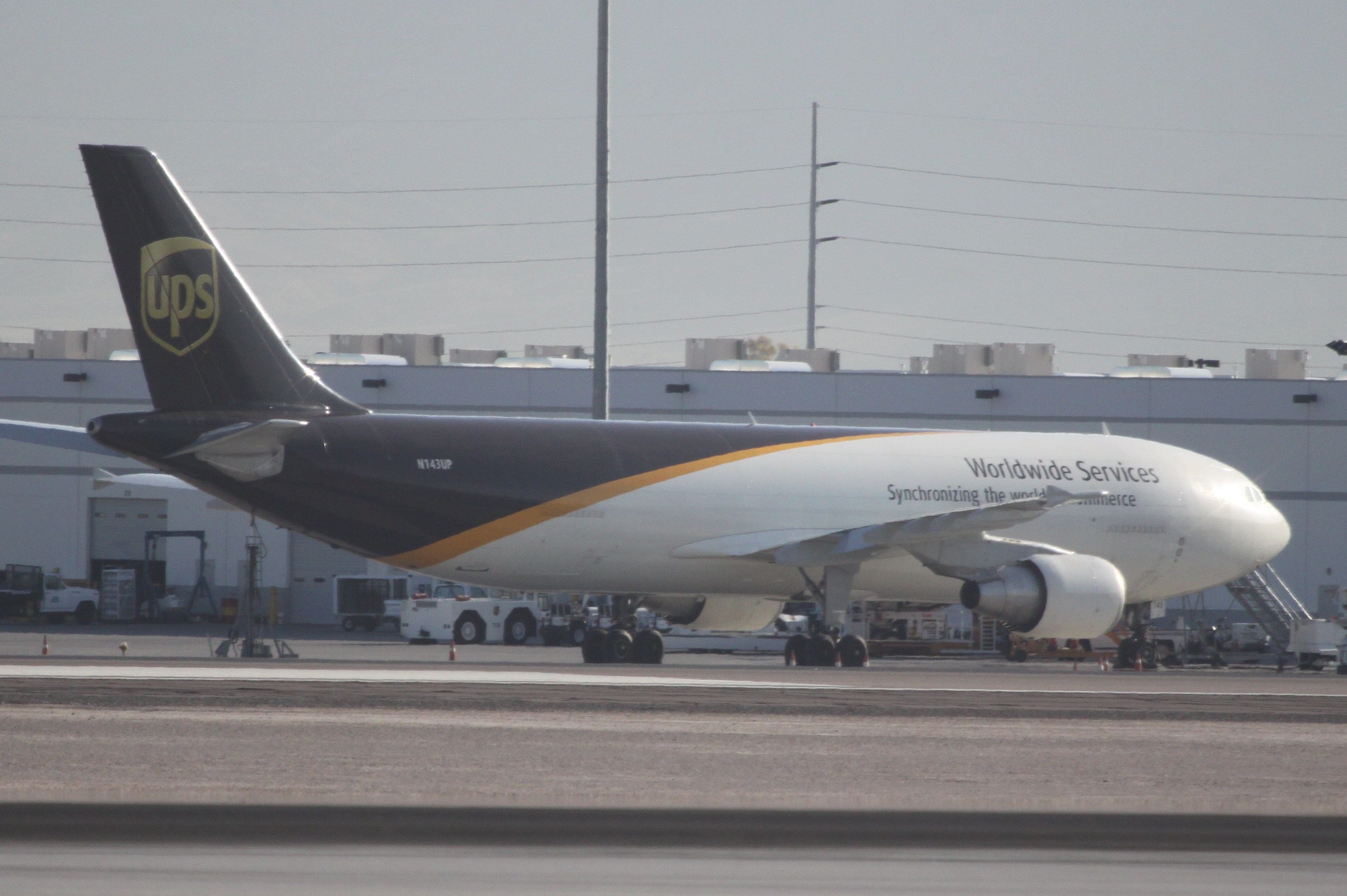 At Las Vegas McCarran International Airport